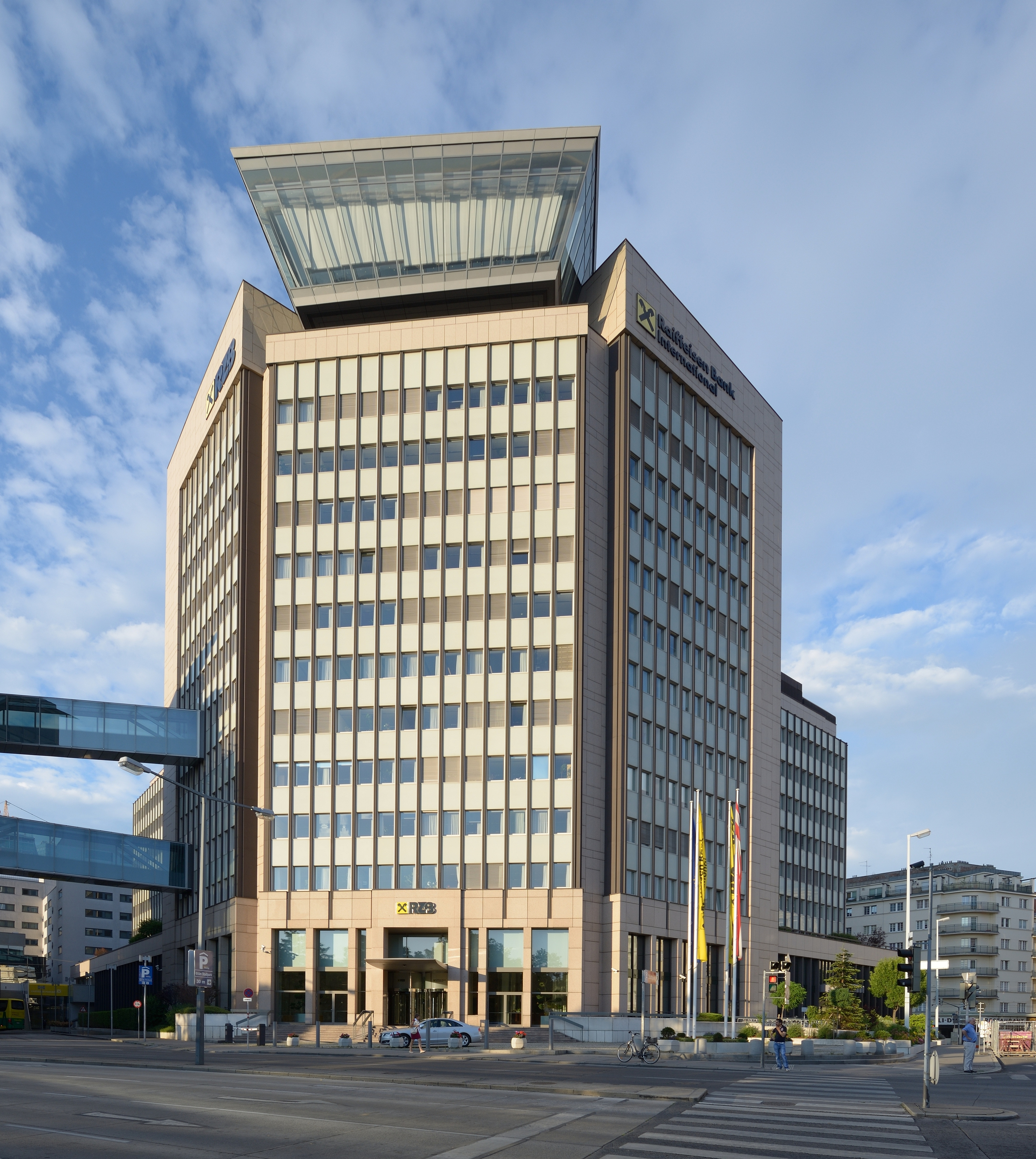 Headquarters of Raiffeisen Zentralbank, 3rd district of Vienna